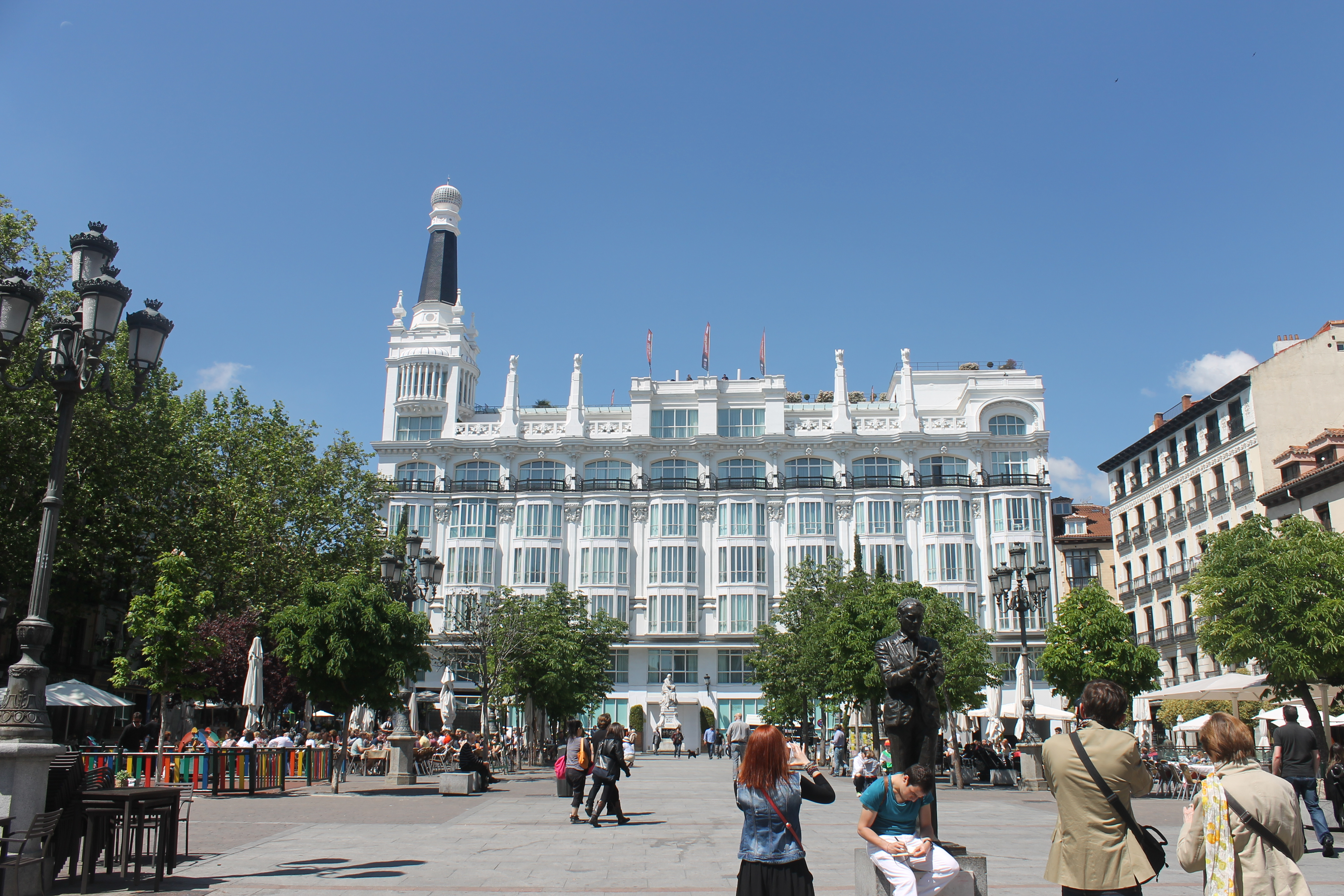 Santa Ana square and Reina Victoria hotel, Madrid